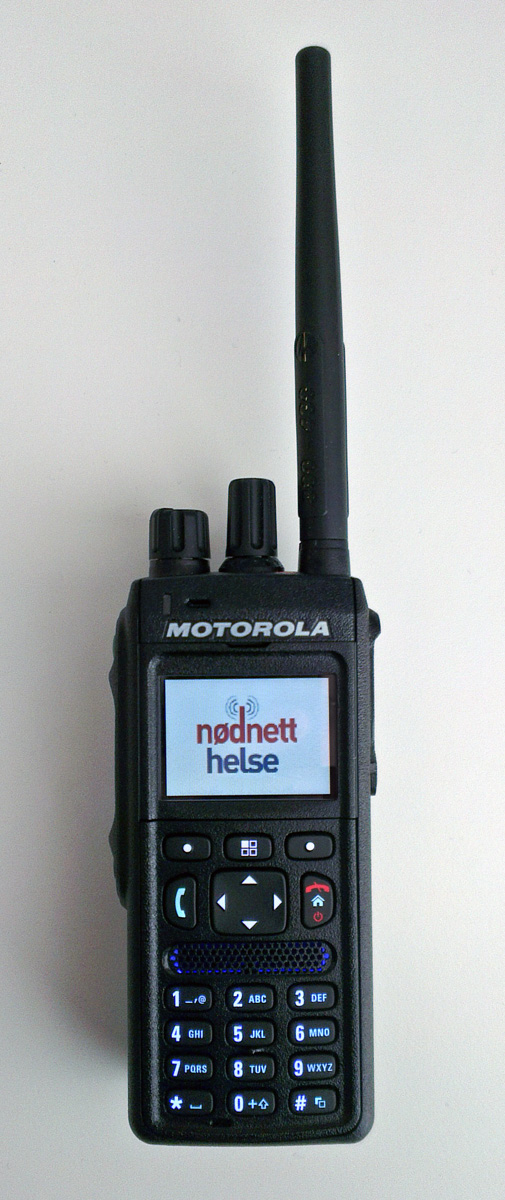 Motorola MTP3250 TETRA radio with the logo of the norwegian Nødnett.